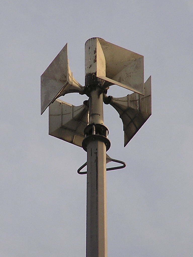 Top of a pneumatic siren type Hörmann HLS 273